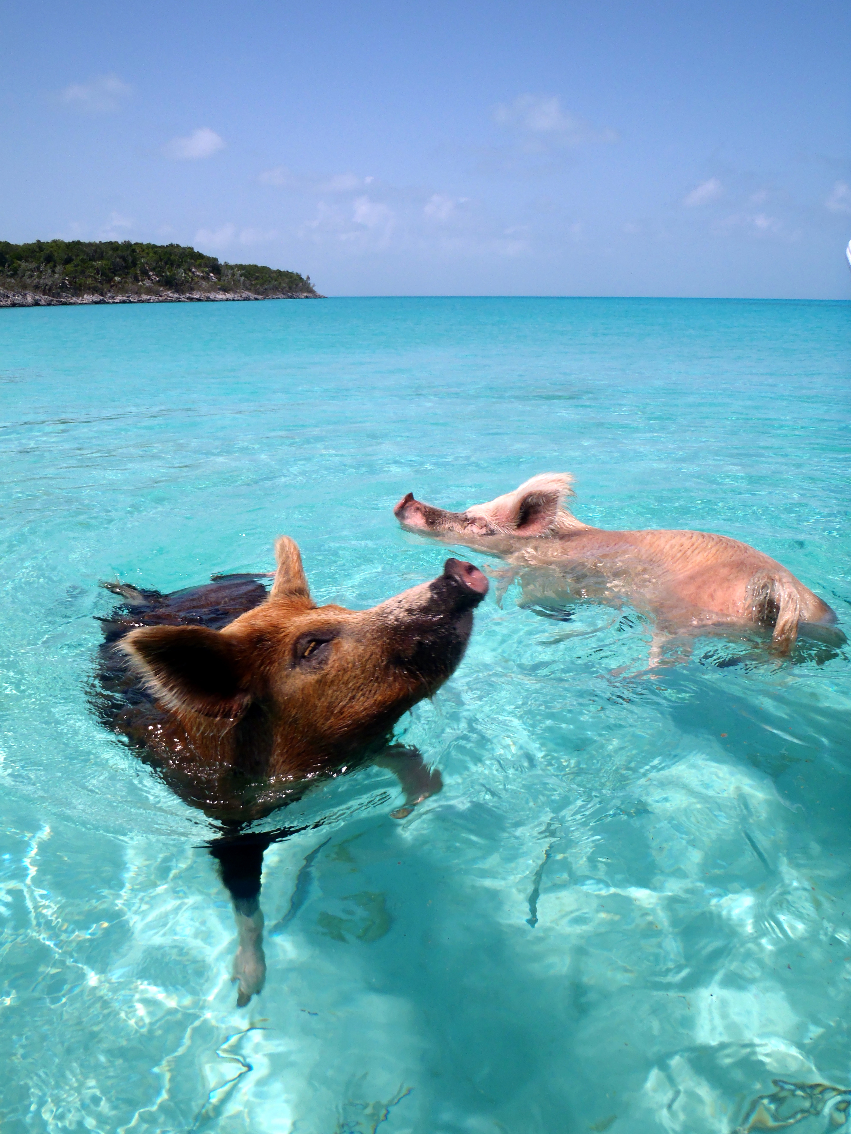 Bahamas 08.2012 on board M/Y Nina Lu The Bahamas, pigs don't fly but they do swim See the swimming pigs in the Bahamas - dallasne.ws/NsLLki Exuma, Bahamas (photos courtesy of Trent from the Nina Lu)